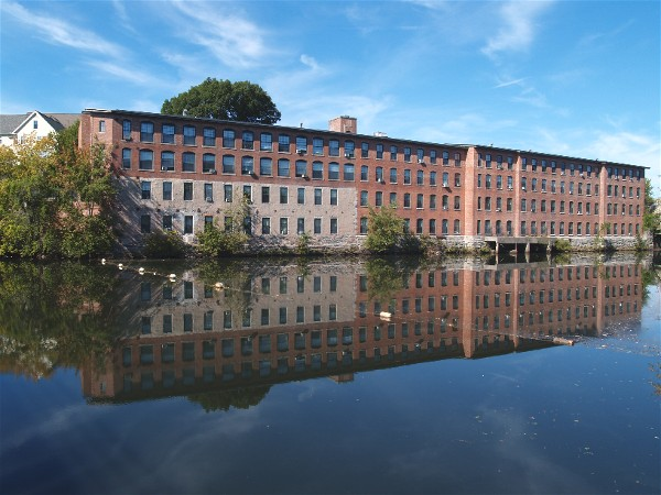 Glenark Mills, on the Blackstone River, Woonsocket, Rhode Island